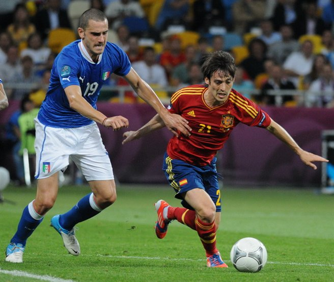 Leonardo Bonucci and David Silva at Euro 2012 final Spain-Italy